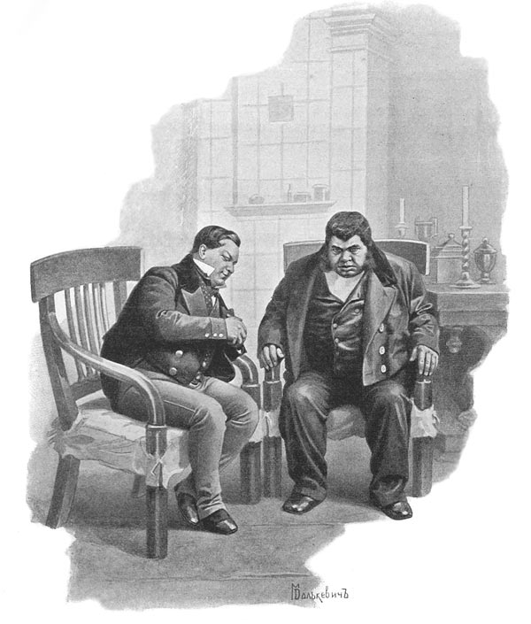 Chichikov and Sobakevich. Illustration to Gogol's "Dead Souls" by M. Dalkevich.